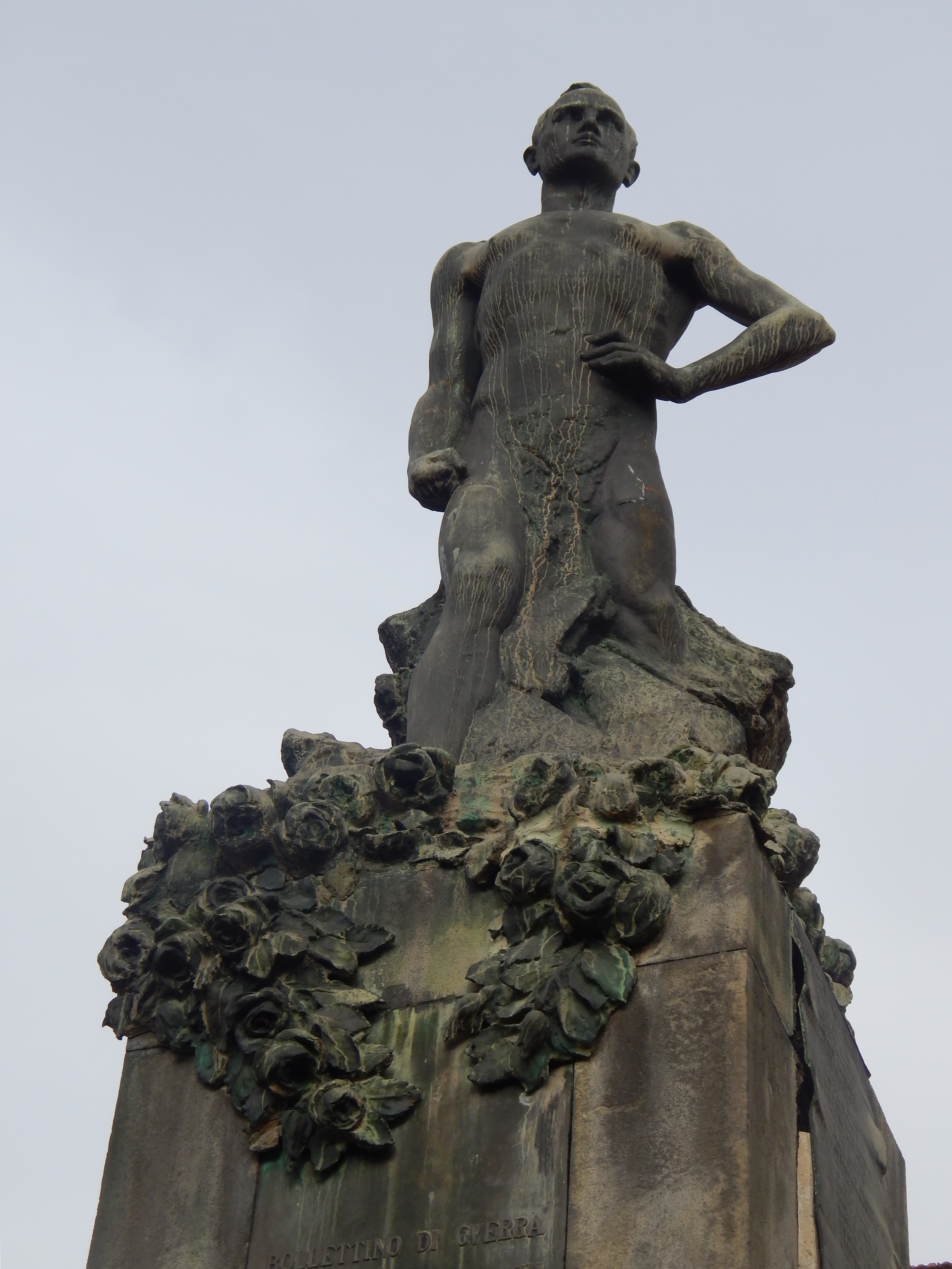 Milite ignoto Acerra